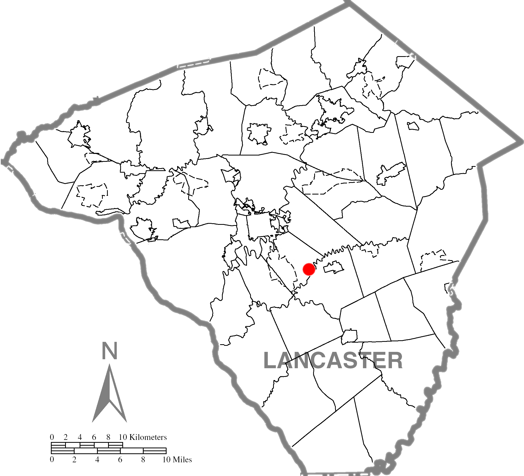 Lancaster County dot map of the Neff's Mill Covered Bridge.